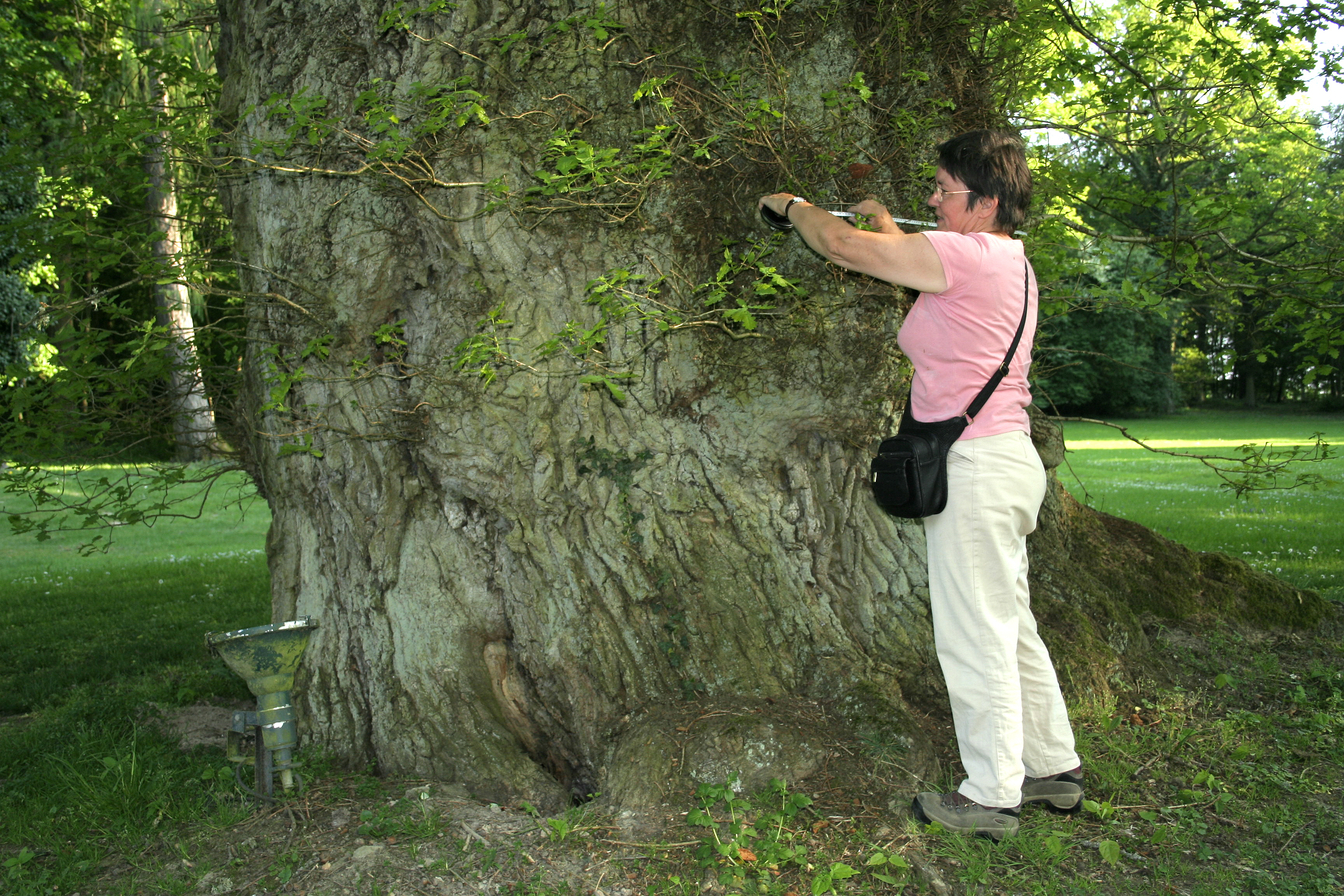 Pedonculate oak.